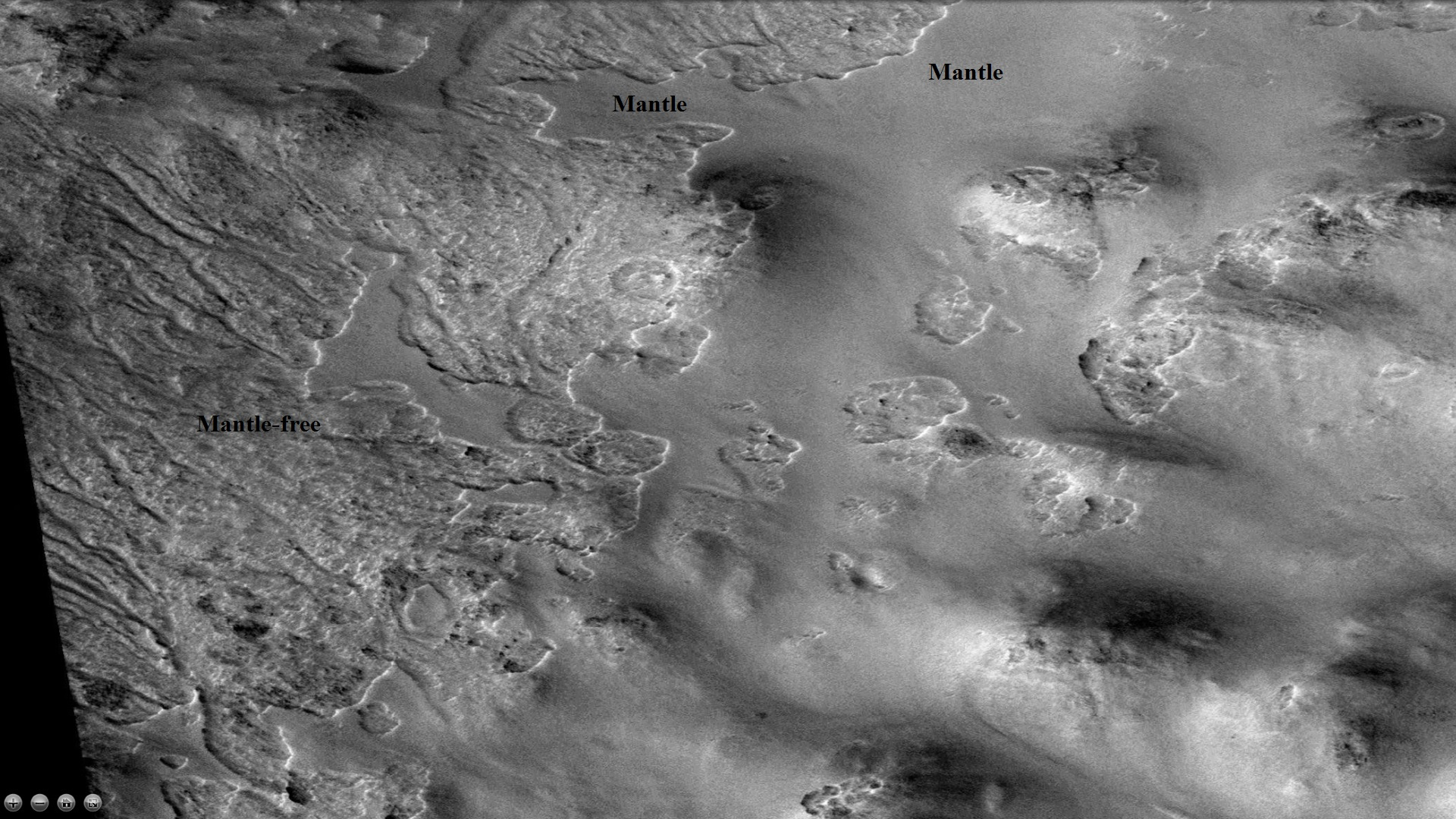 Perepelkin Crater showing channels and mantle, as seen by CTX Note: this is an enlargement of another image.